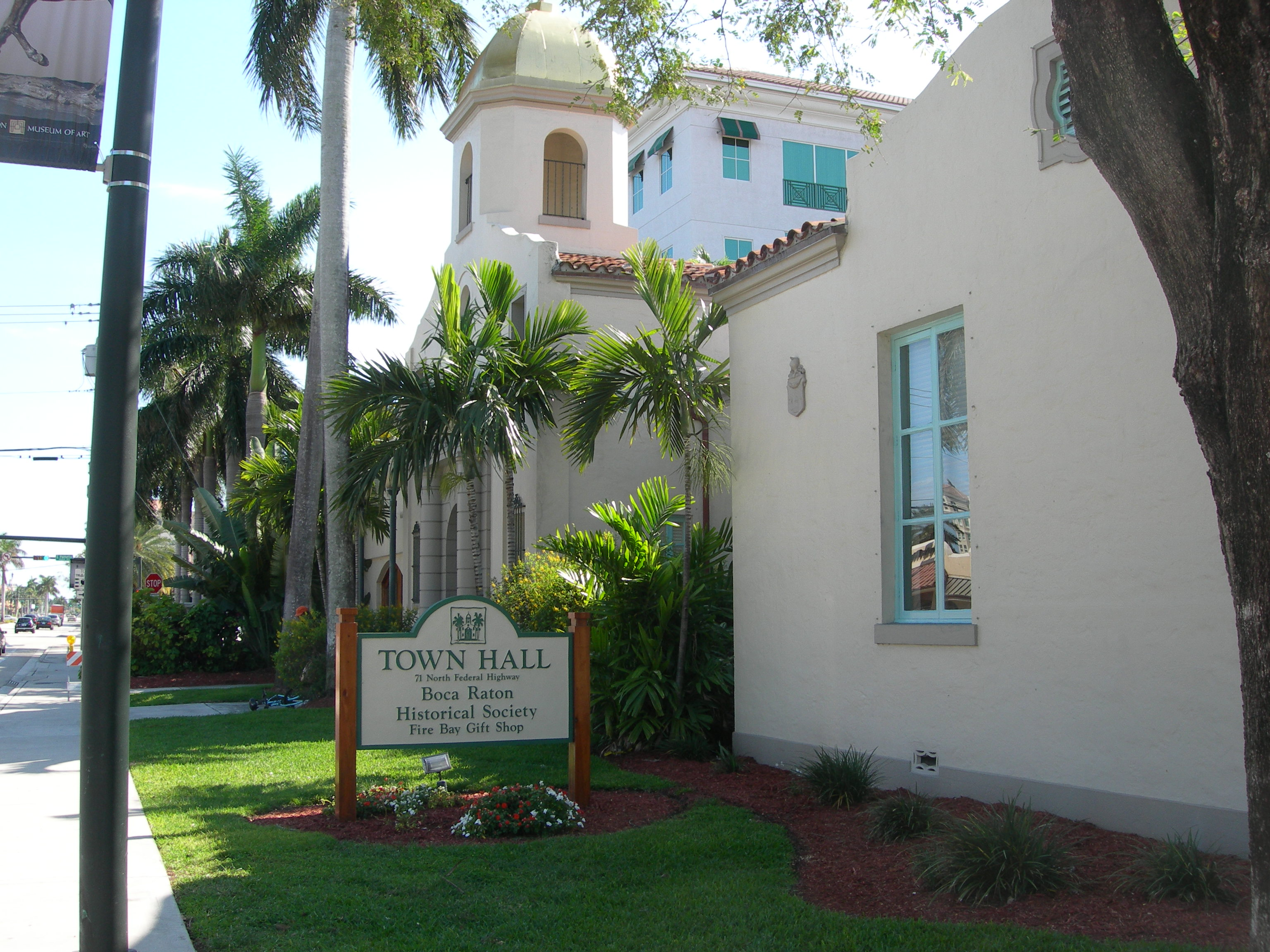 Old Boca Raton town hall, listed on the National Register of Historic Places.